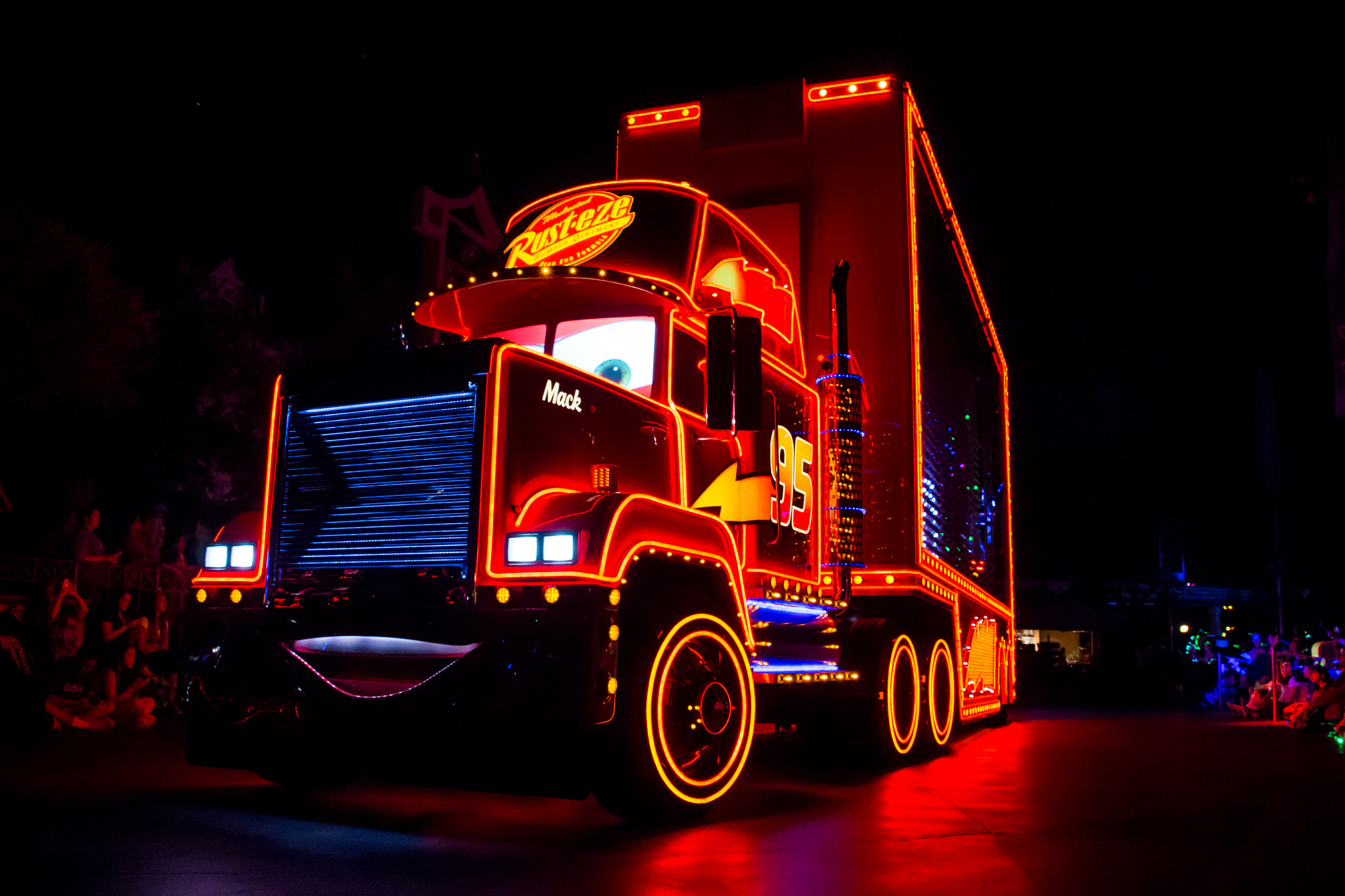 The fabulous new Paint the Night parade in Disneyland.